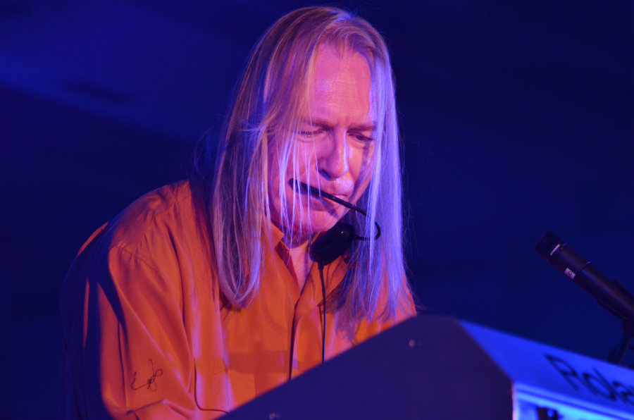 Eric Mouquet of Grammy winning Deep Forest at Deep India Concert organised by Vivanta by Taj hotel in Bangalore, India. (Photo - Jim Ankan Deka)